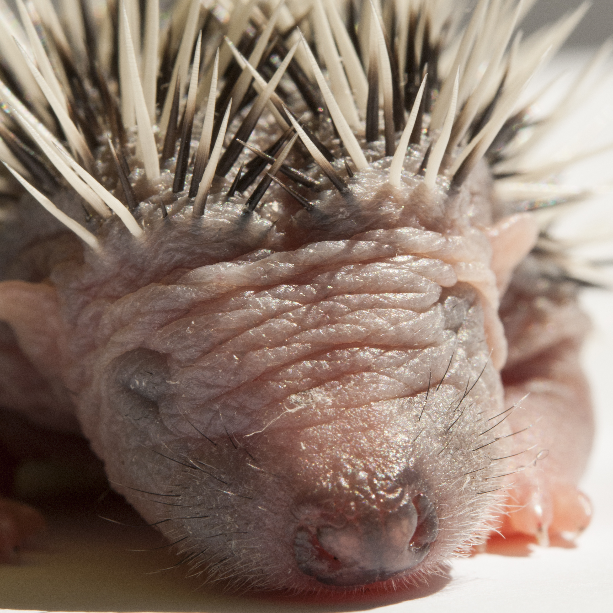 One day old Erinaceus europaeus.